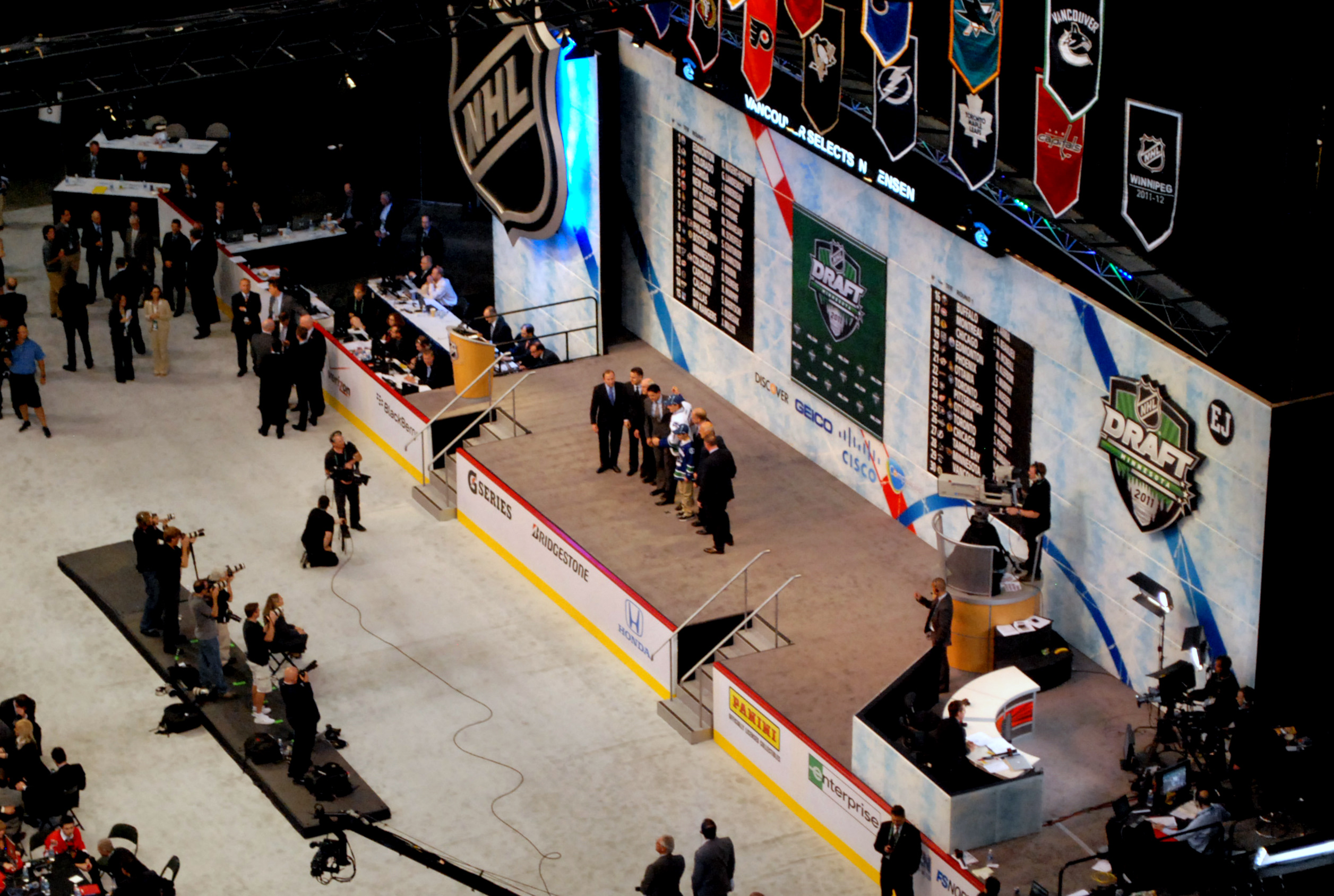 Danish forward Nicklas Jensen (on stage, in white) upon being selected 29th overall by the Vancouver Canucks in the 2011 NHL Entry Draft.